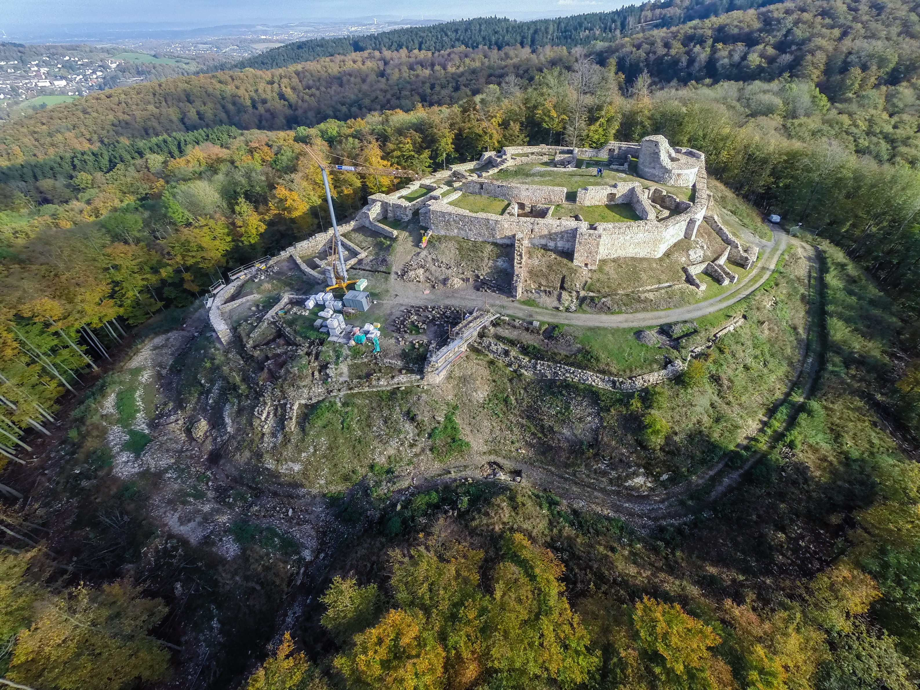 The Falkenburg near Detmold-Berlebeck